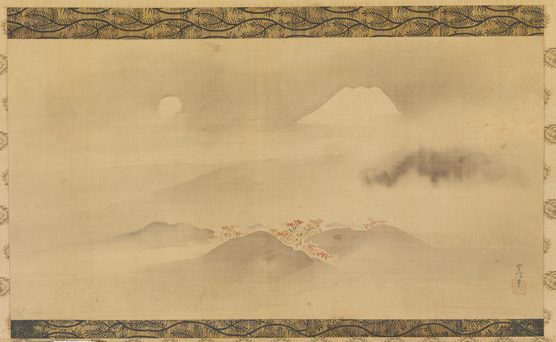 Tsunenobu was head of an official painting workshop that had been in existence since the 15th century. Using minimal means, he evokes the sense of the season.